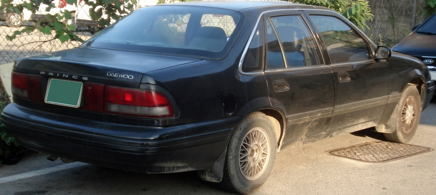 Daewoo Prince